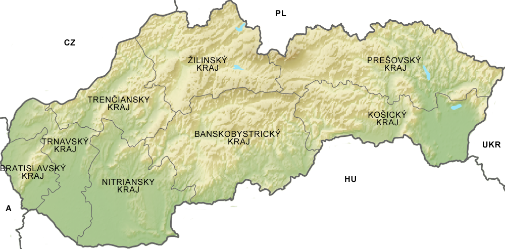 Administrative regions of Slovakia (Kraje)